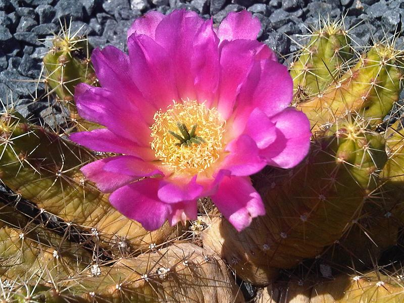 Echinocereus pentalophus flower in Kew Gardens, London, England.